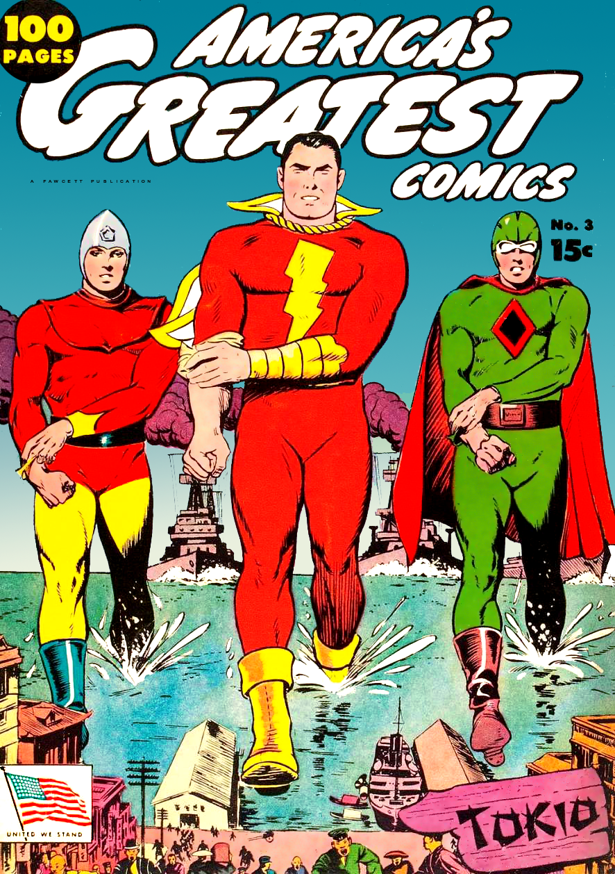 Bulletman, Captain Marvel and Spy Smasher march on Tokyo on the over of America's Greatest Comics number 3. Published by Fawcett Comics (May 1942), this image has fallen into the public domain, due to lapsed copyright.